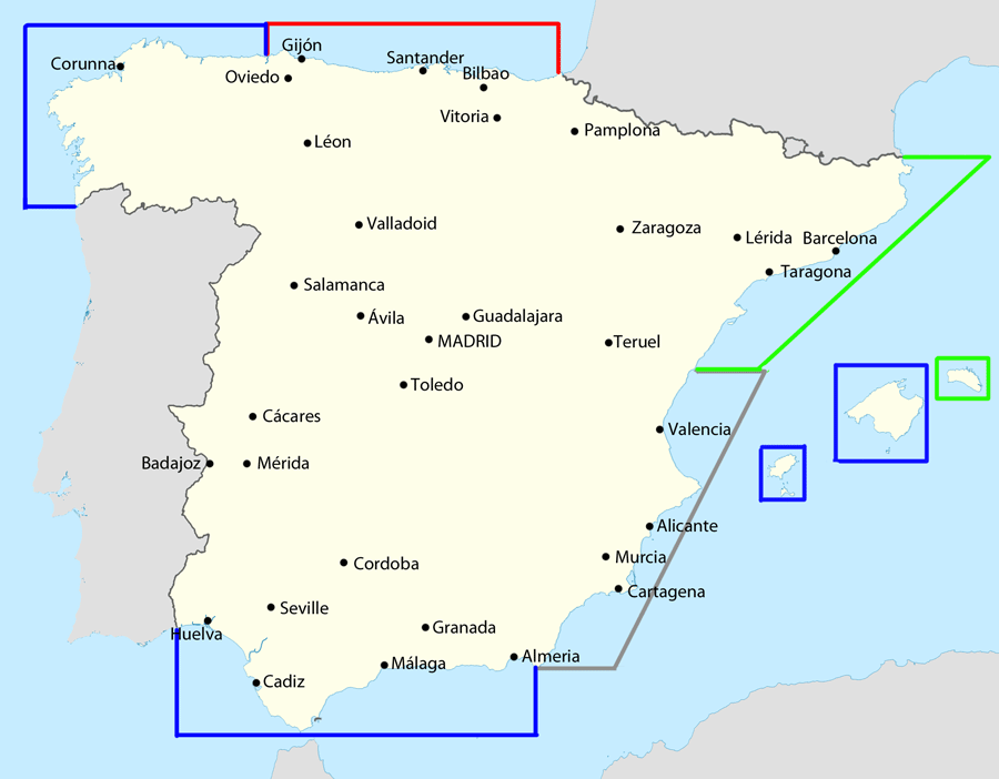 Map showing the control zones of four countries (red - the United Kingdom; blue - France; green - Italy; grey - Germany) as put forward and implemented in the Spanish Civil War. Note: these are areas of coastline, rather than sea zones. Data comes from Thomas, Hugh (1961) The Spanish Civil War (1st ed.), London: Eyre and Spottiswoode, p. 395